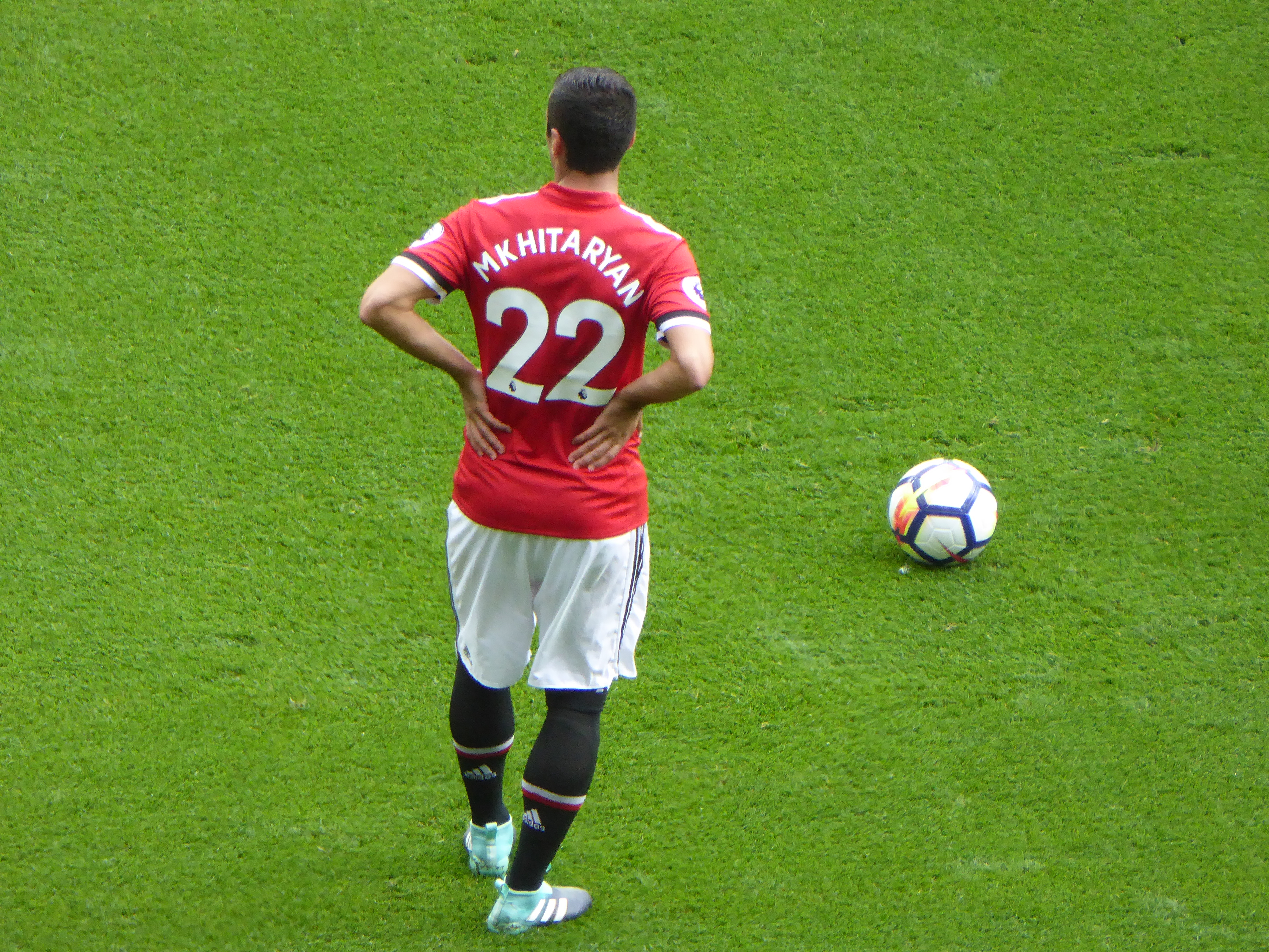 Manchester United v West Ham United (4-0), Premier League, Old Trafford, Manchester, Greater Manchester, England, 13 August 2017